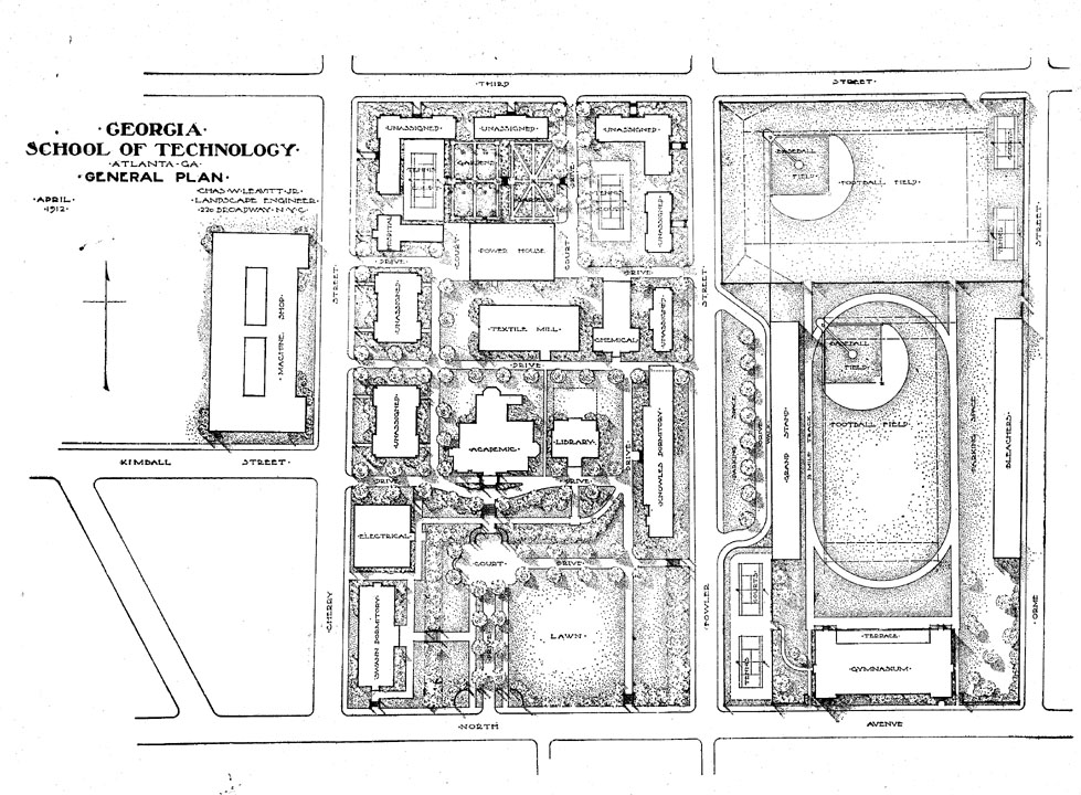 Georgia Institute of Technology's Master Plan in 1912